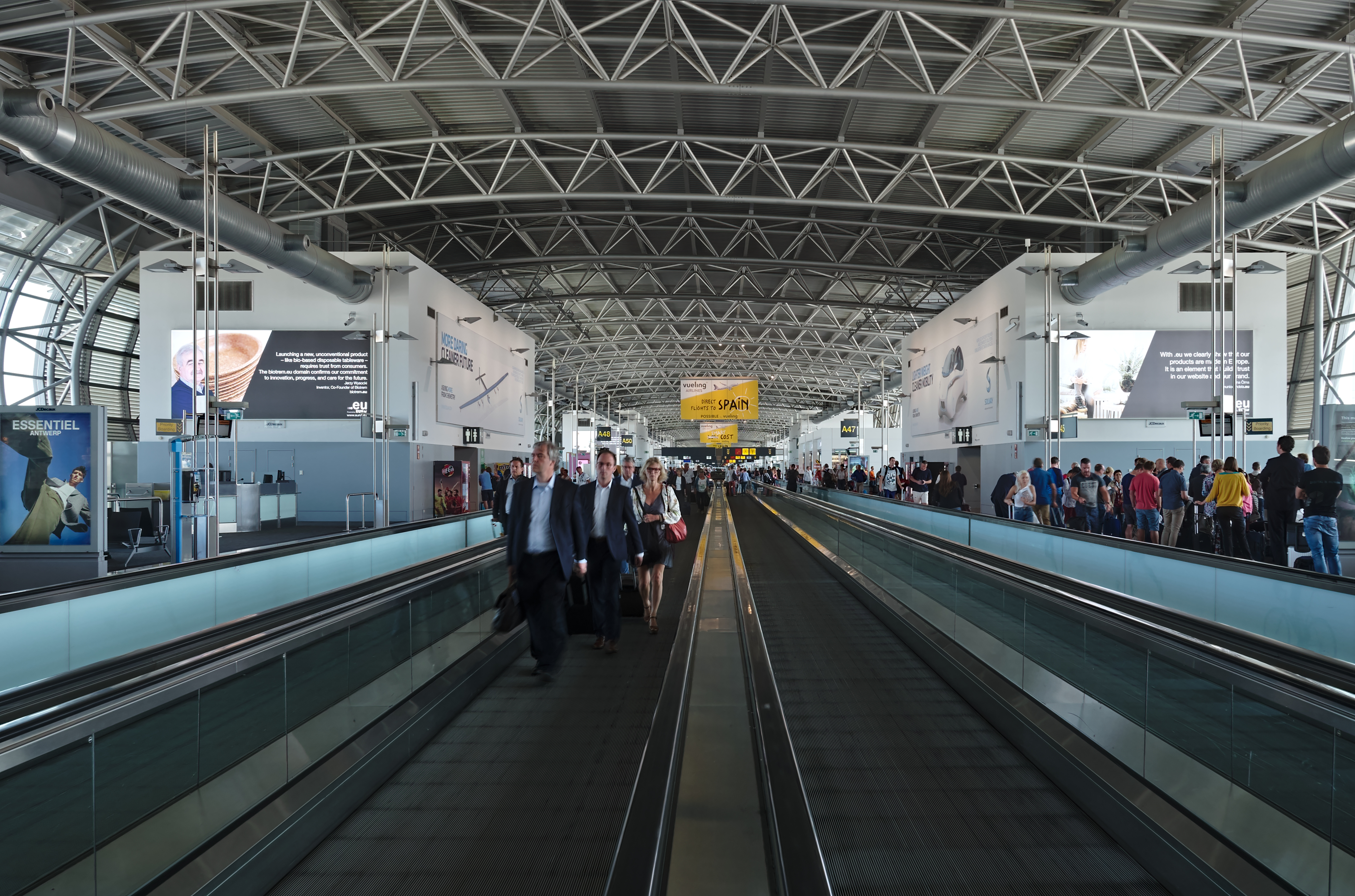 Moving walkway through the A-gates of Brussels Airport This photo of immovable heritage has been taken in the Flemish Region